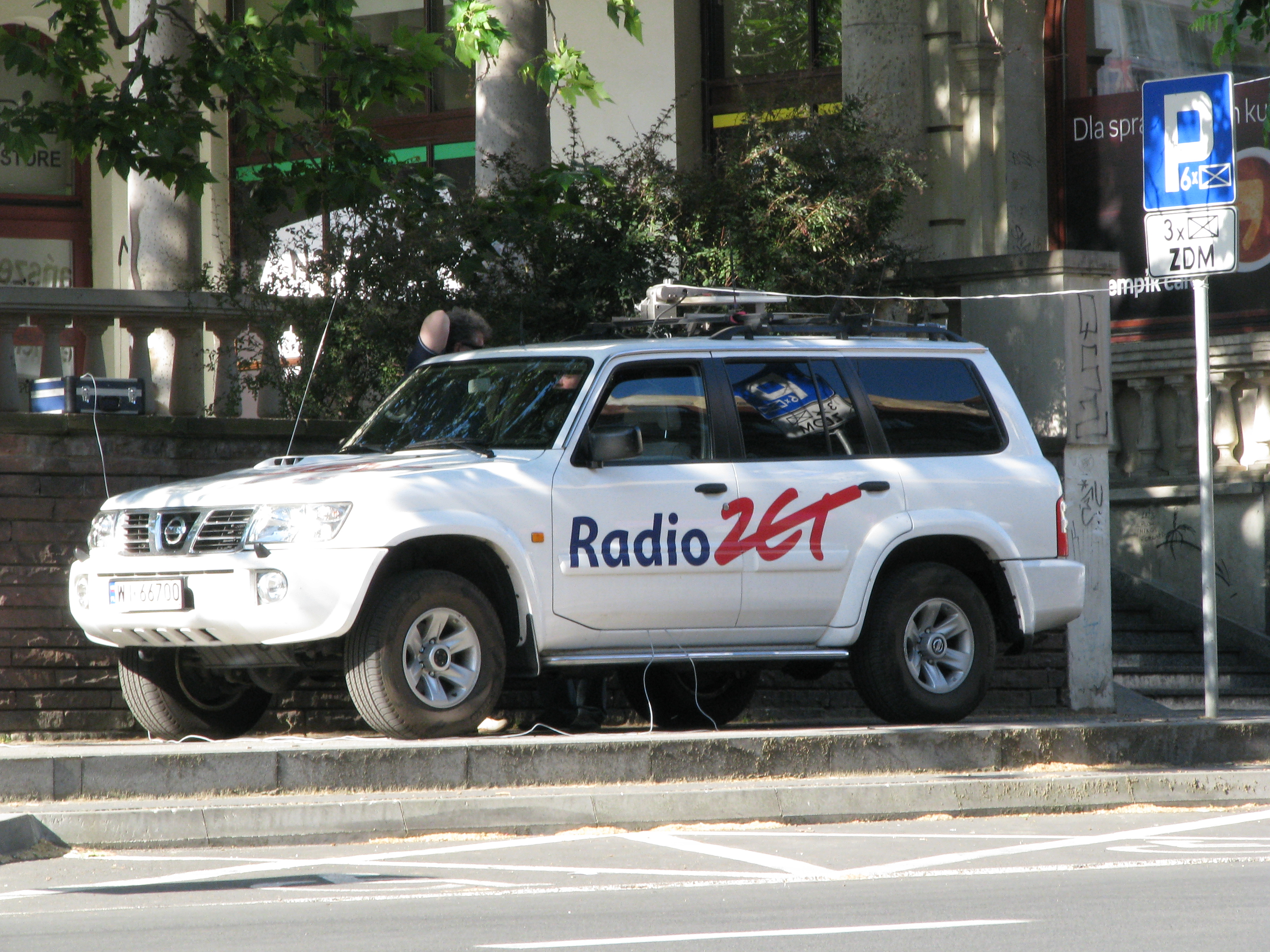 Radio Zet Poland. Broadcasting van in Poznan